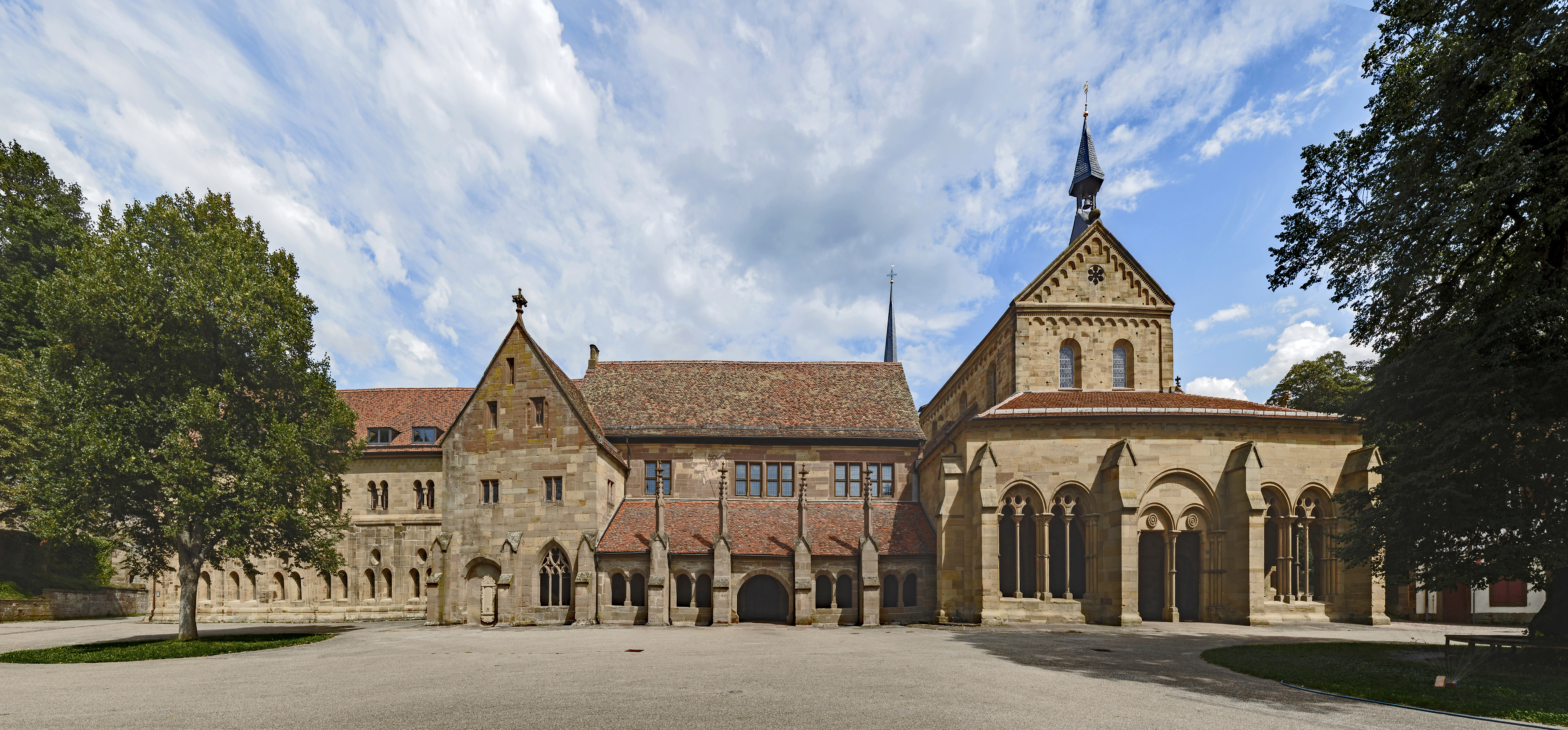 Courtyard facade of the Maulbronn Monastery, Maulbronn, Germany